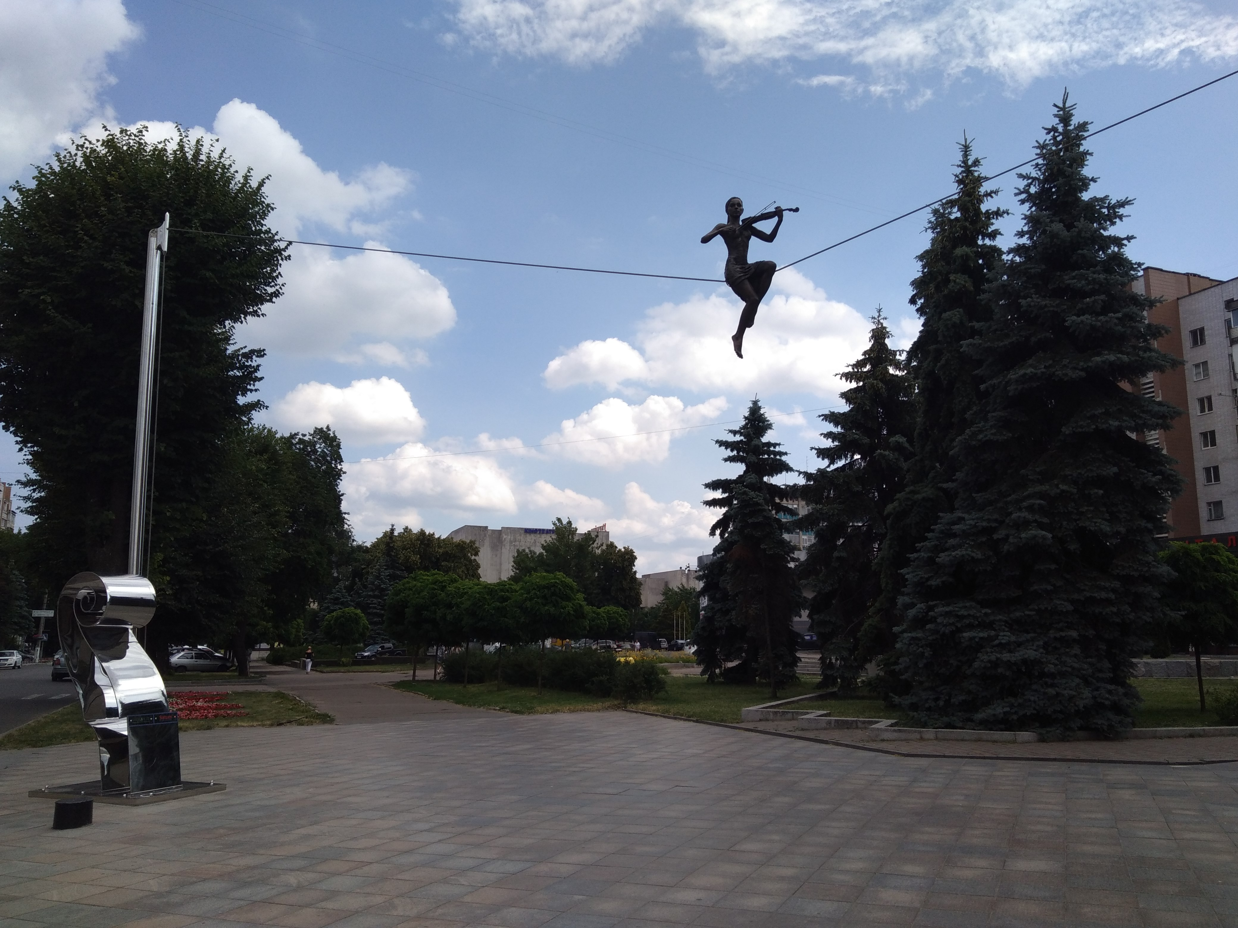 Momument "High note" (Cherkasy, Ukraine)